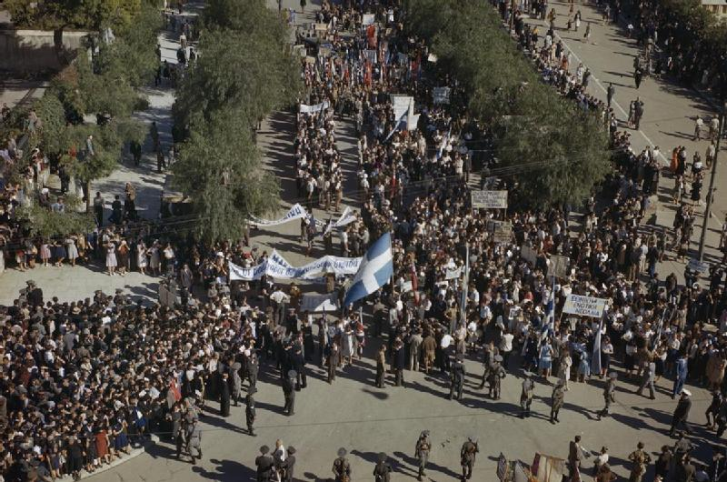 The New Government of Greece Enters Athens, 18 October 1944 The Greek Prime Minister M Papandreou, made a speech which was broadcast to the whole country and afterwards laid a wreath on the Tomb of the Unknown Soldier. Various factions of the civilian population of Athens marching to the main square on the day the new Government of Greece led by the Prime Minister, Mr George Papandreou entered the city.